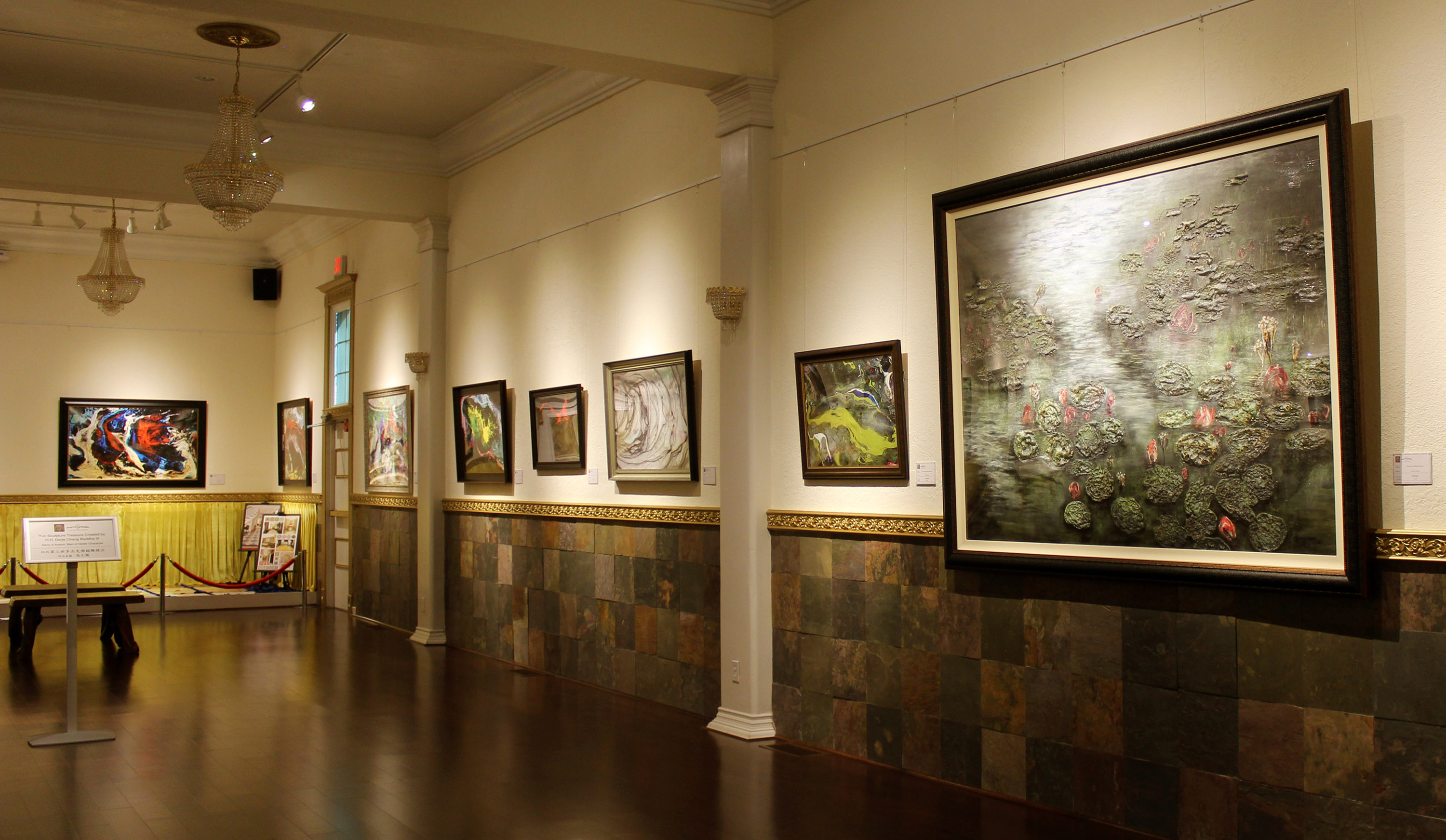 H.H. Dorje Chang Buddha III Cultural and Art Museum - first floor exhibition hall, Covina, California